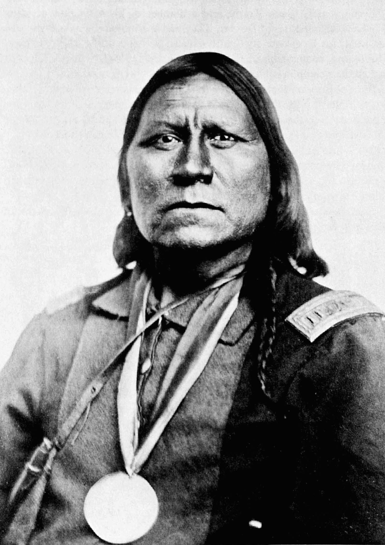 Portrait of Chief Satanta (White Bear) Wearing Peace Medal, Leather Bag, Blanket, and Military Jacket.[1] “This photograph must have been made early in the spring of 1867 at Fort Dodge. The chief is wearing a jacket made partly of an army officer's uniform, with the insignia of a captain. In may of that year, General Hancock gave him a major general's coat. He appears to be waring a Washington medal but there is no record that he was ever presented with one. Note that his hair is cut off just below the ear on the right side; this was a Kiowa custom.” —Smithsonian Institution, Bureau of American Ethnology, In: Wilbur Sturtevant Nye, Plains Indian raiders : the final phases of warfare from the Arkansas to the Red River, with original photographs by William S. Soule. University of Oklahoma Press, 1st edition, 1968, ISBN 0806111755, p186.